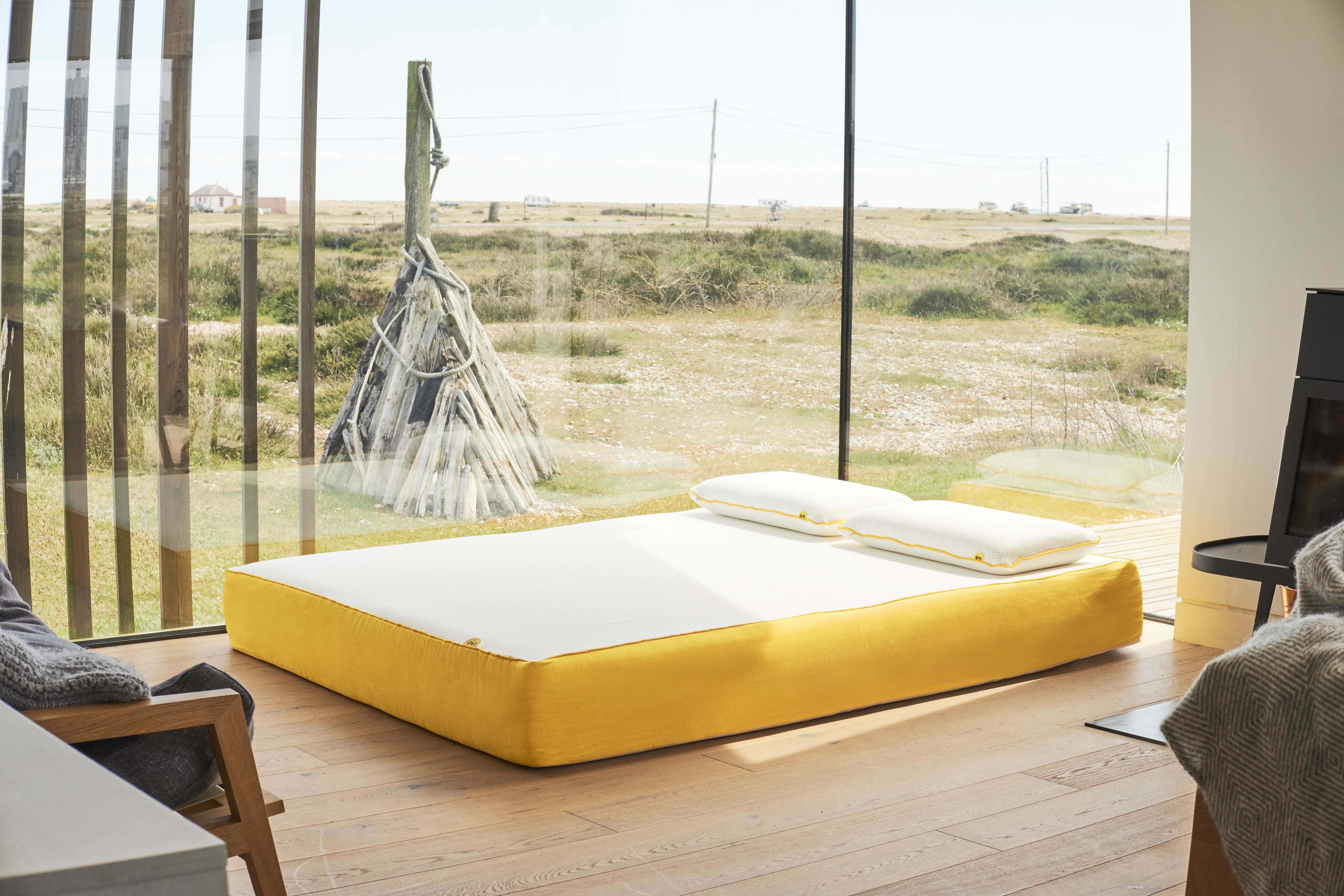 Eve Sleep mattress